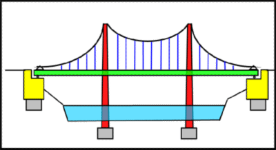 Category:Suspension bridge